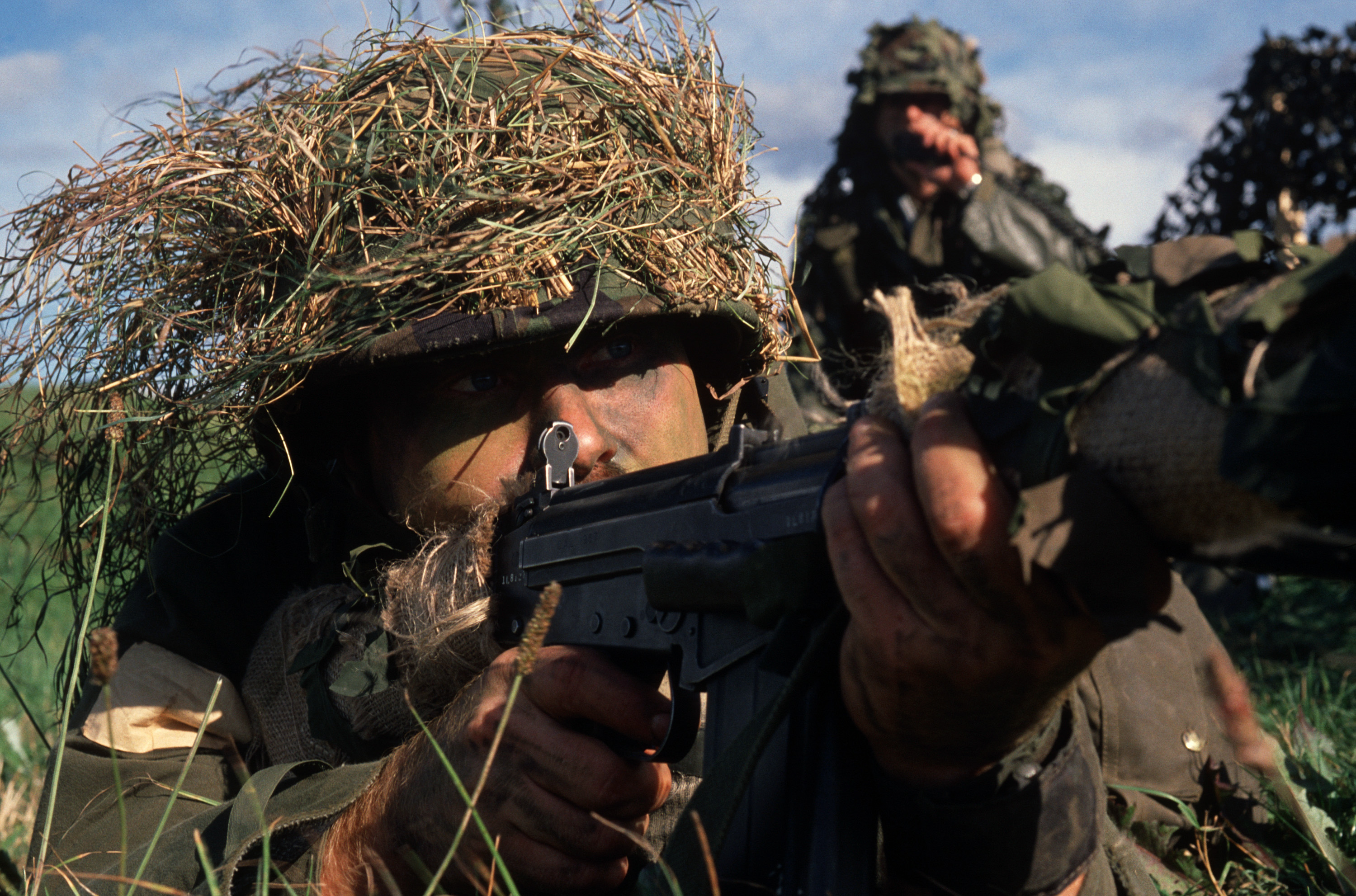 A member of the Canadian 129th Anti-Aircraft Defense Battery aims a C1 7.62 mm rifle during Exercise CORNET PHASER, a NATO rapid deployment exercise conducted under simulated wartime conditions.